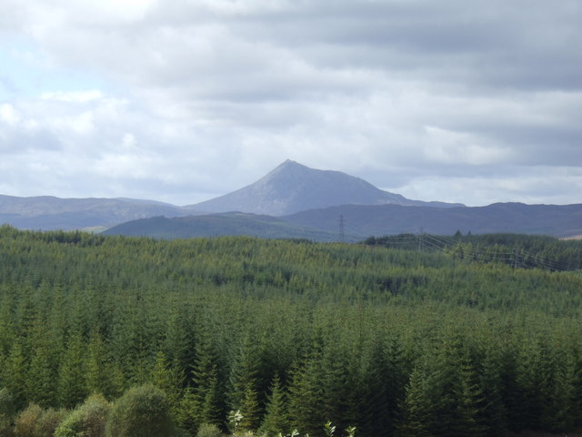 Schiehallion in the distance Detail of the fantastic view from the A826 viewpoint.